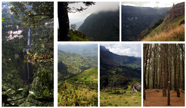 Waterfalls La Chorrera and Choachí rural views